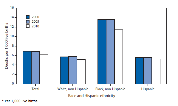 Data indicating the IMR disparity between non-Hispanic white mothers and non-Hispanic black mothers from 2000-2010.